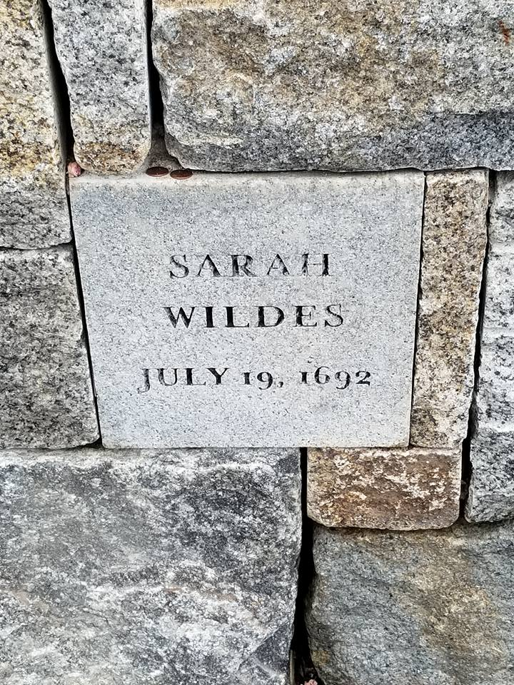 This is the marker for Sarah Wildes at the Proctor's Ledge memorial monument.